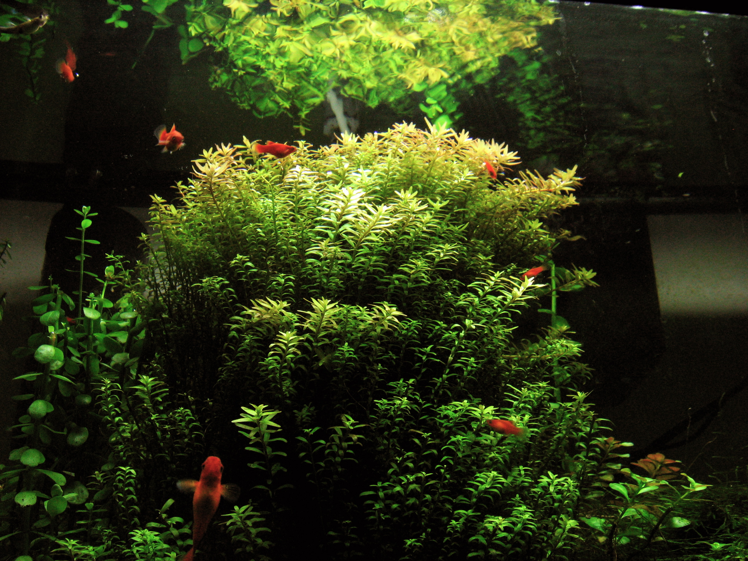 Rotala indica in aquarium